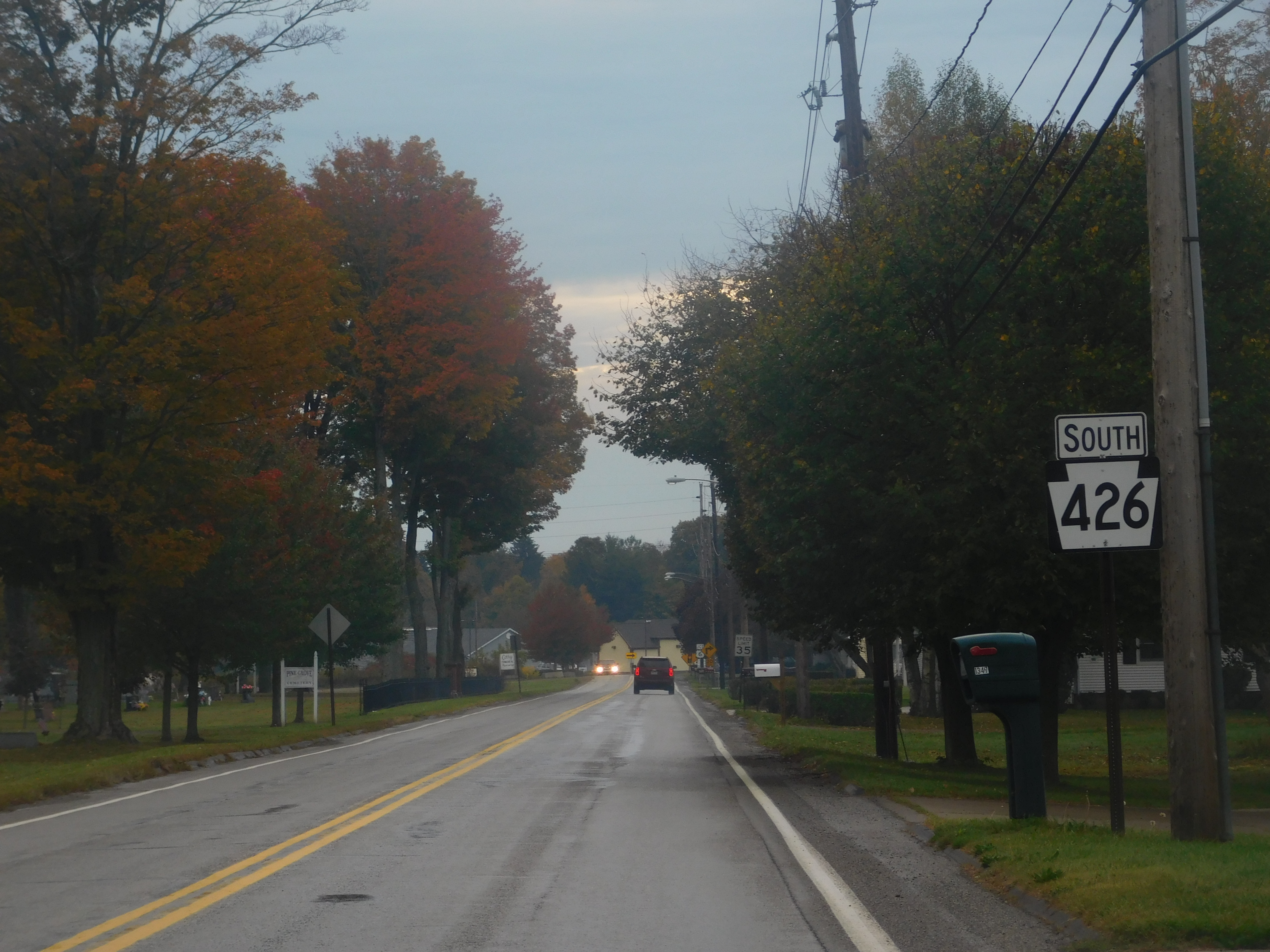 PA 426 southbound entering Corry, Pennsylvania.